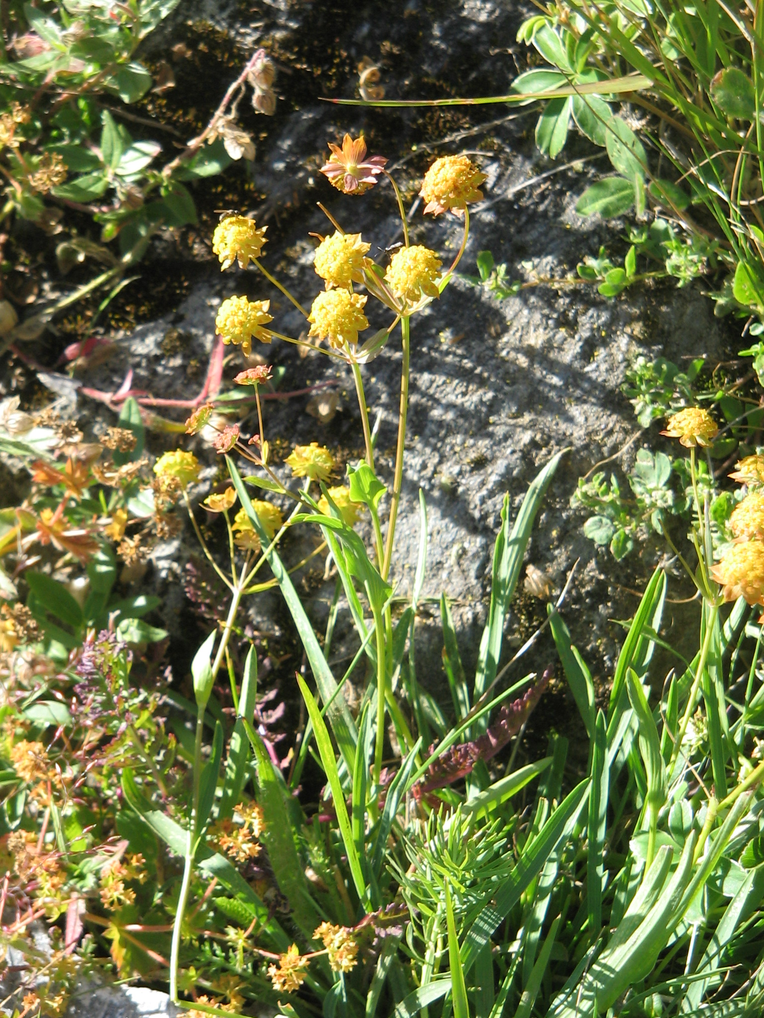 Bupleurum ranunculoides